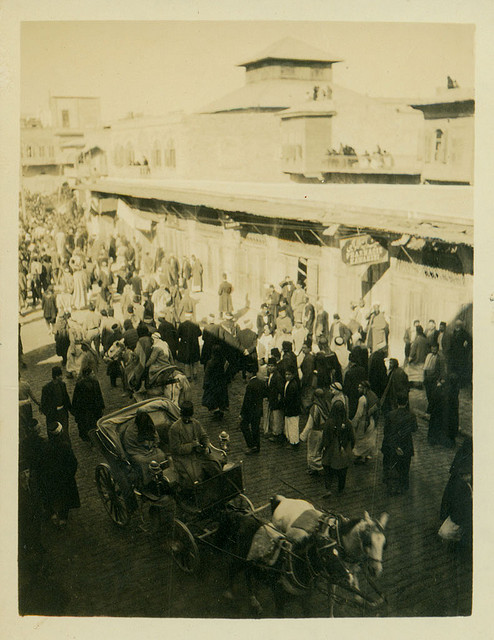 Street in Aleppo, 1920s